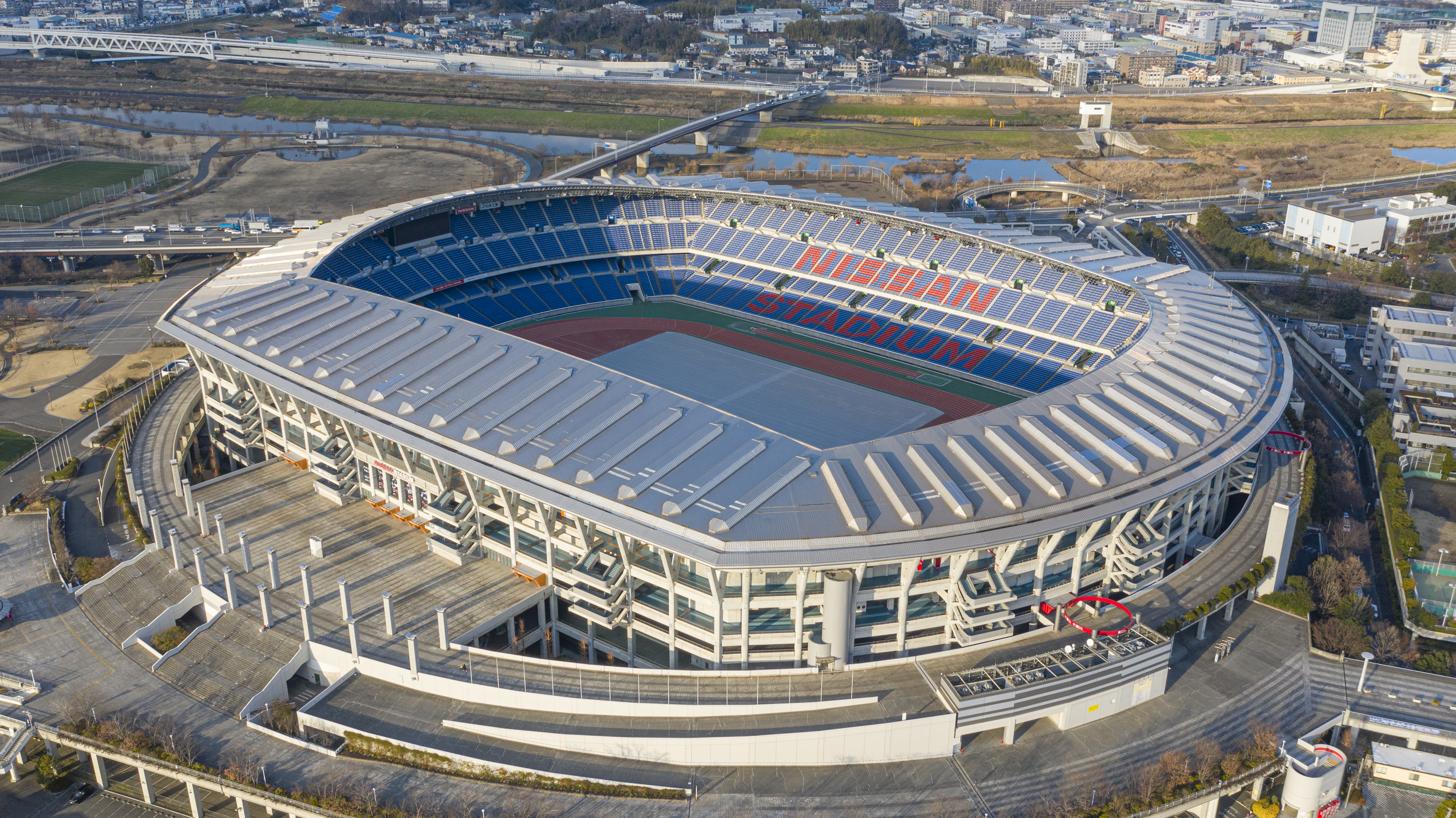 Aerial view of International Stadium Yokohama, Japan